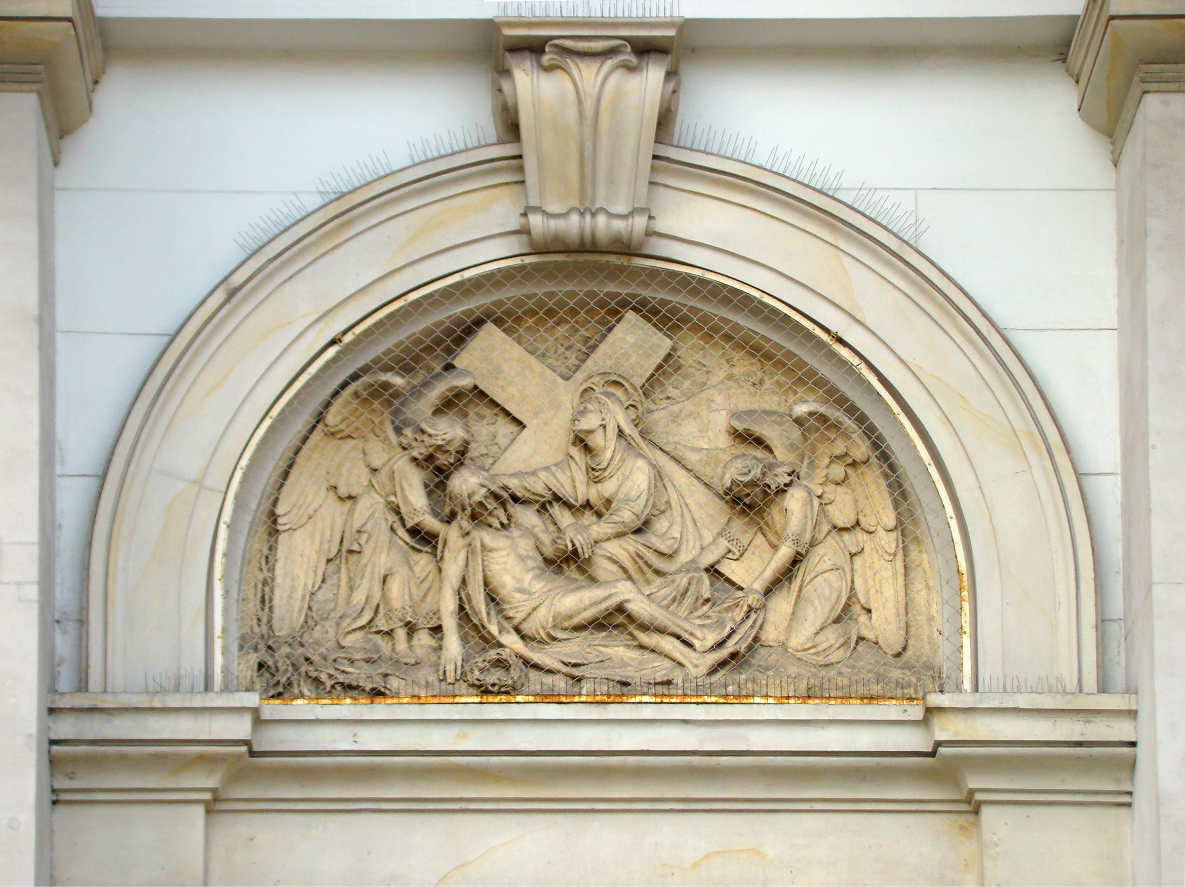 Church of the Holiest Saviour - The Descent from the Cross by Feliks Giecewicz